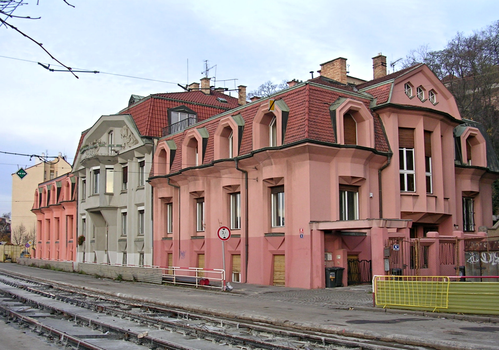 Vyšehrad, Prague. Reconstruction of tram track.